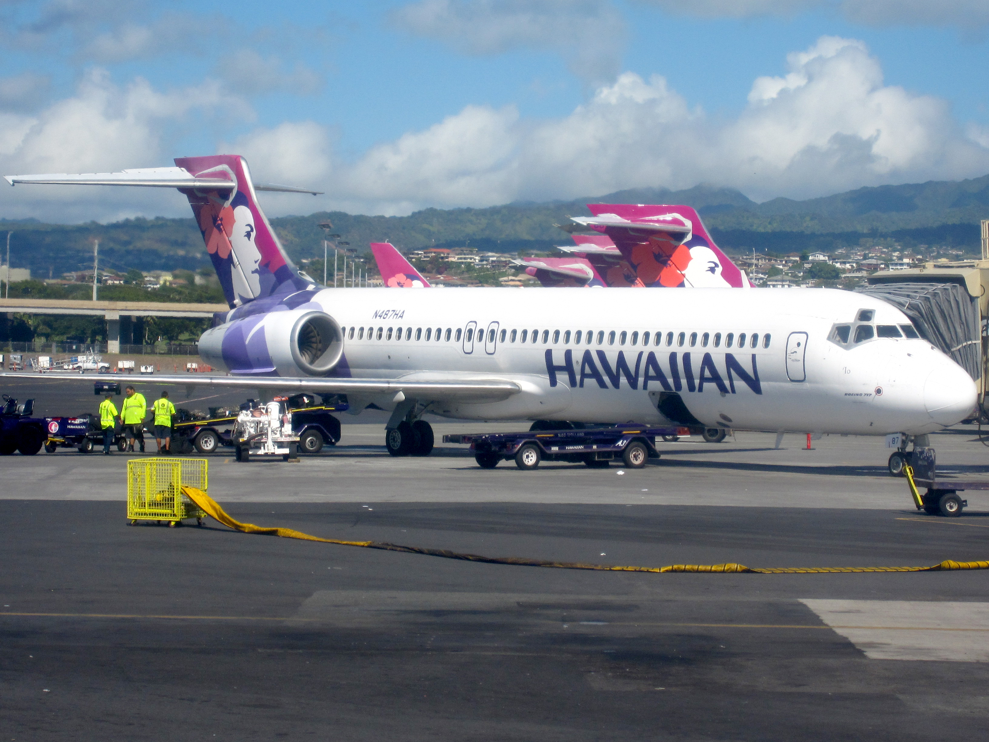 Hawaiian Airlines Boeing 717-200 at Honolulu International Airport (HNL) in December 2009.